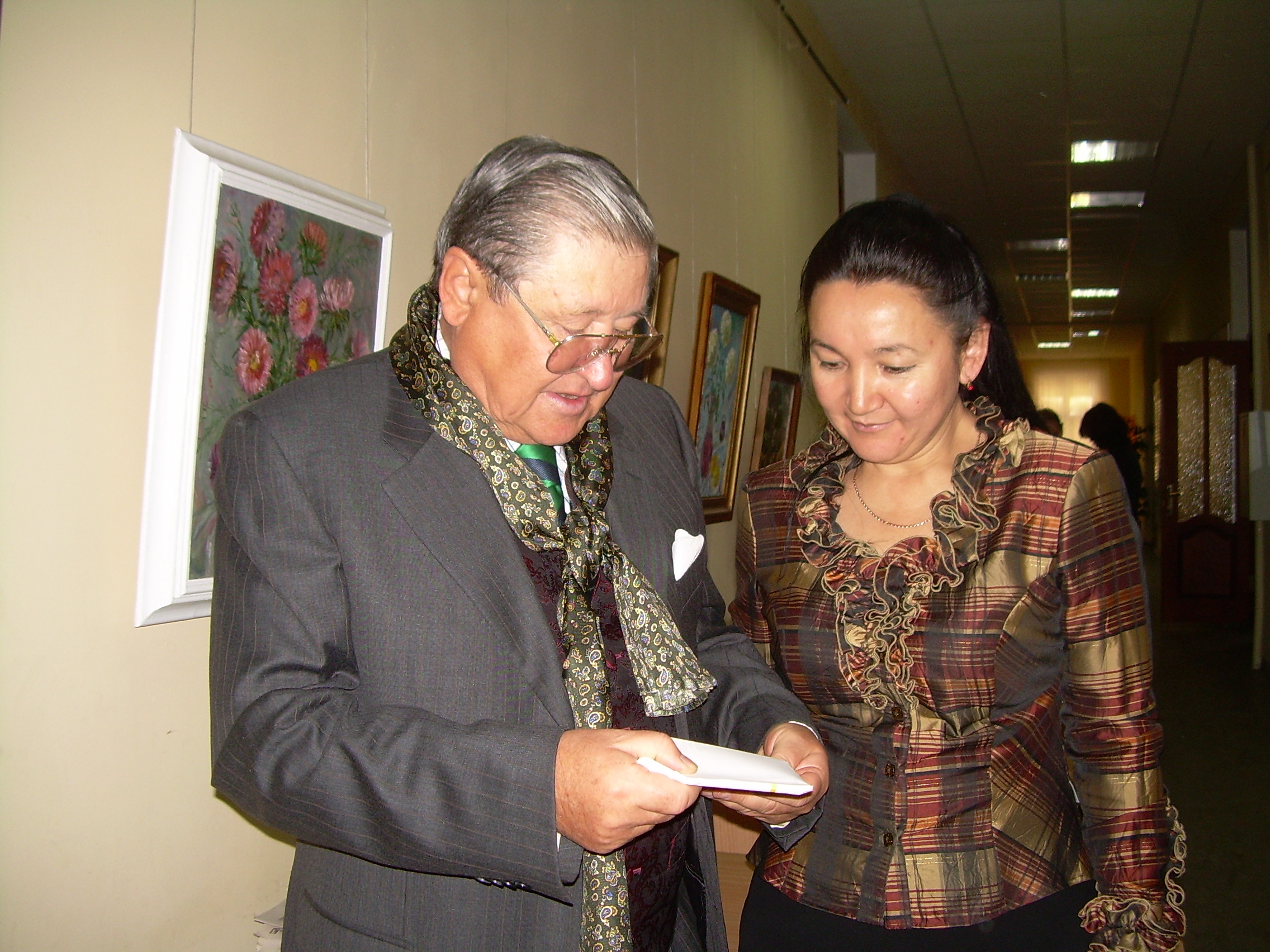 Писатель Рауль Мирхайдаров на выставке М.Жаксыгариной.2008